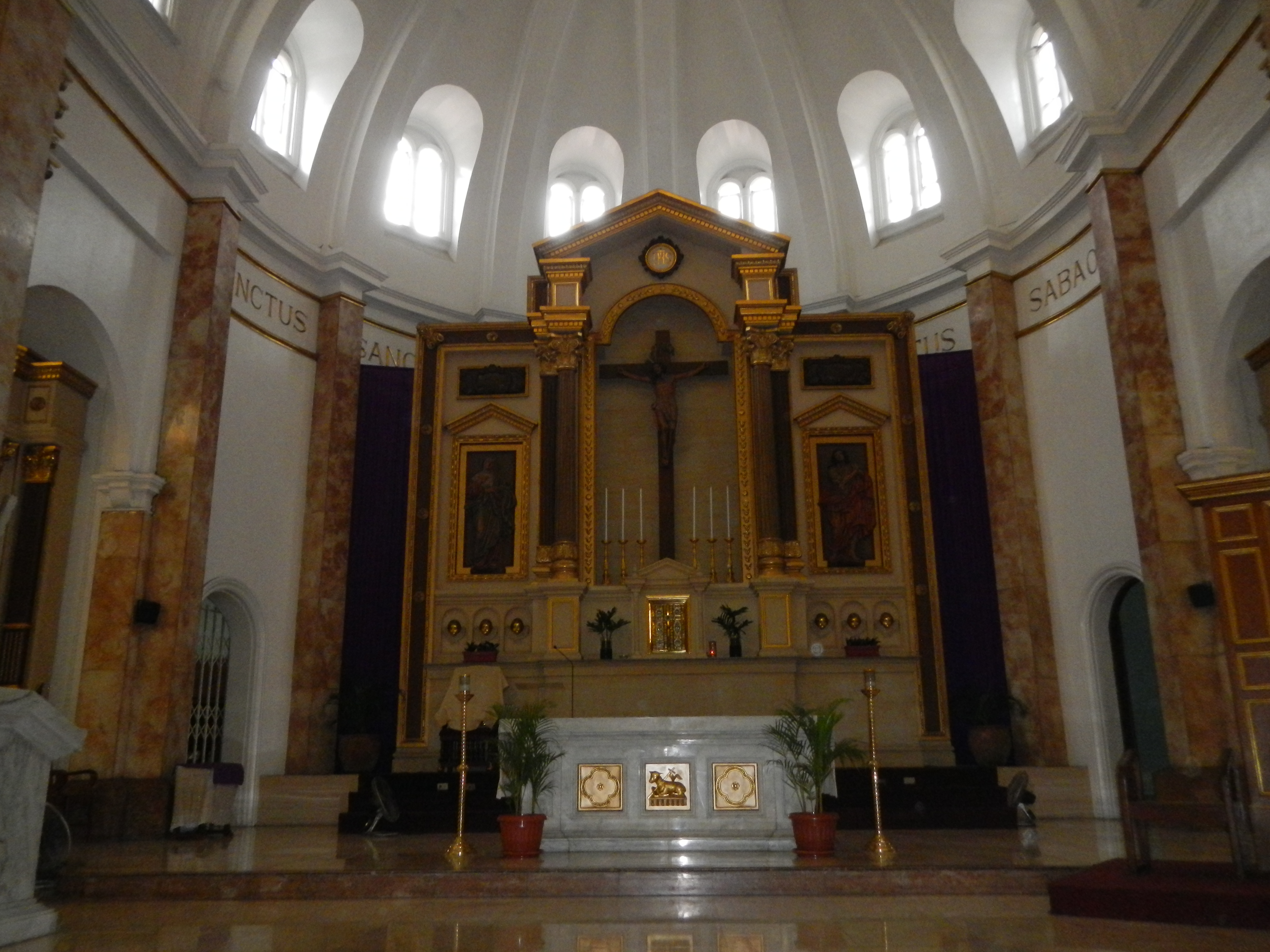 San Fernando de Dilao Church[1] 1521 Paz Street, Paco, Manila. The San Fernando de Dilao Church is a Roman Catholic parish located in Paco, Manila, Philippines, honoring Saint King Ferdinand III of Castile of Spain. Since February 2012, the parish has been used as current temporal church by the Archdiocese of Manila[2], until the structural renovations of Cathedral-Basilica of the Immaculate Conception are completed. The church inside is notable for its baroque interior, most notably the Latin inscriptions similar in style to Saint Peter's Basilica in Vatican City. The church is currently administered by its parochial priest, Monsignor Fray Rolando de la Cruz, the Vicar-general and Moderator Curiae of the Archdiocese of Manila. [3][4][5]Coordinates: 14°34'45"N 120°59'40"E [6]Paco, formerly known as Dilao, is a district of Manila, Philippines. [7]Pastor: Msgr. Rolando R. dela Cruz